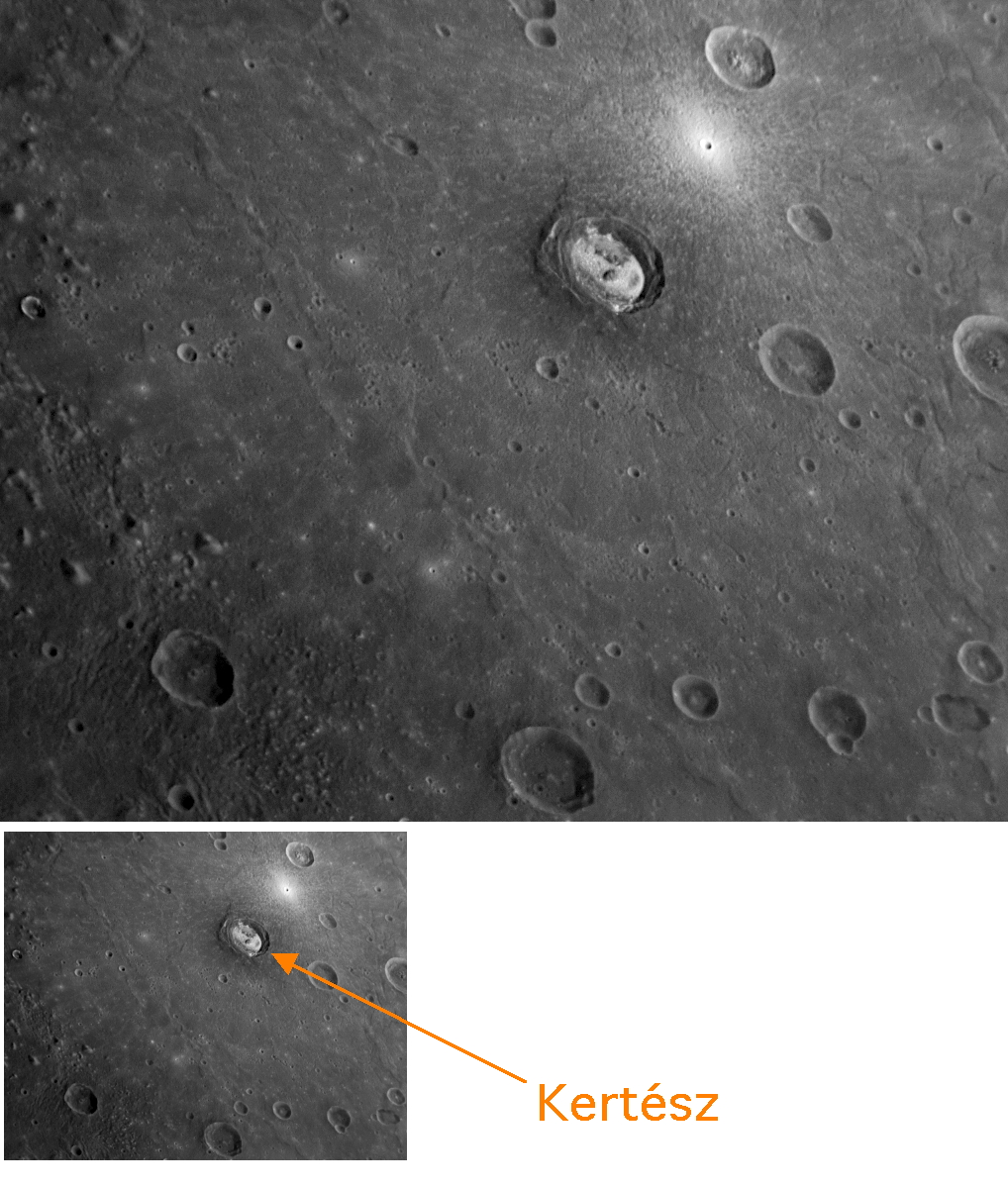 Image Mission Elapsed Time (MET): 108826812 Instrument: Narrow Angle Camera (NAC) of the Mercury Dual Imaging System (MDIS) Resolution: 260 meter/pixel (0.16 miles/pixel) Scale: Kertész crater is 34 kilometers (21 miles) in diameter Spacecraft Altitude: 10,200 kilometers (6,340 miles) Of Interest: Located in the western edge of Mercury's giant Caloris basin, Kertész crater (recently named for André Kertész, a Hungarian-born American photographer) has some unusual, bright material located on its floor. Sander crater, located in the northwestern edge of Caloris basin, also shows bright material on its floor. The MESSENGER Science Team is investigating the nature and composition of these bright materials and making comparisons between these two craters both located at the edges of Caloris basin. Just northeast of Kertész, a small crater has very bright rays and ejecta in this image, indicating that the crater is young.